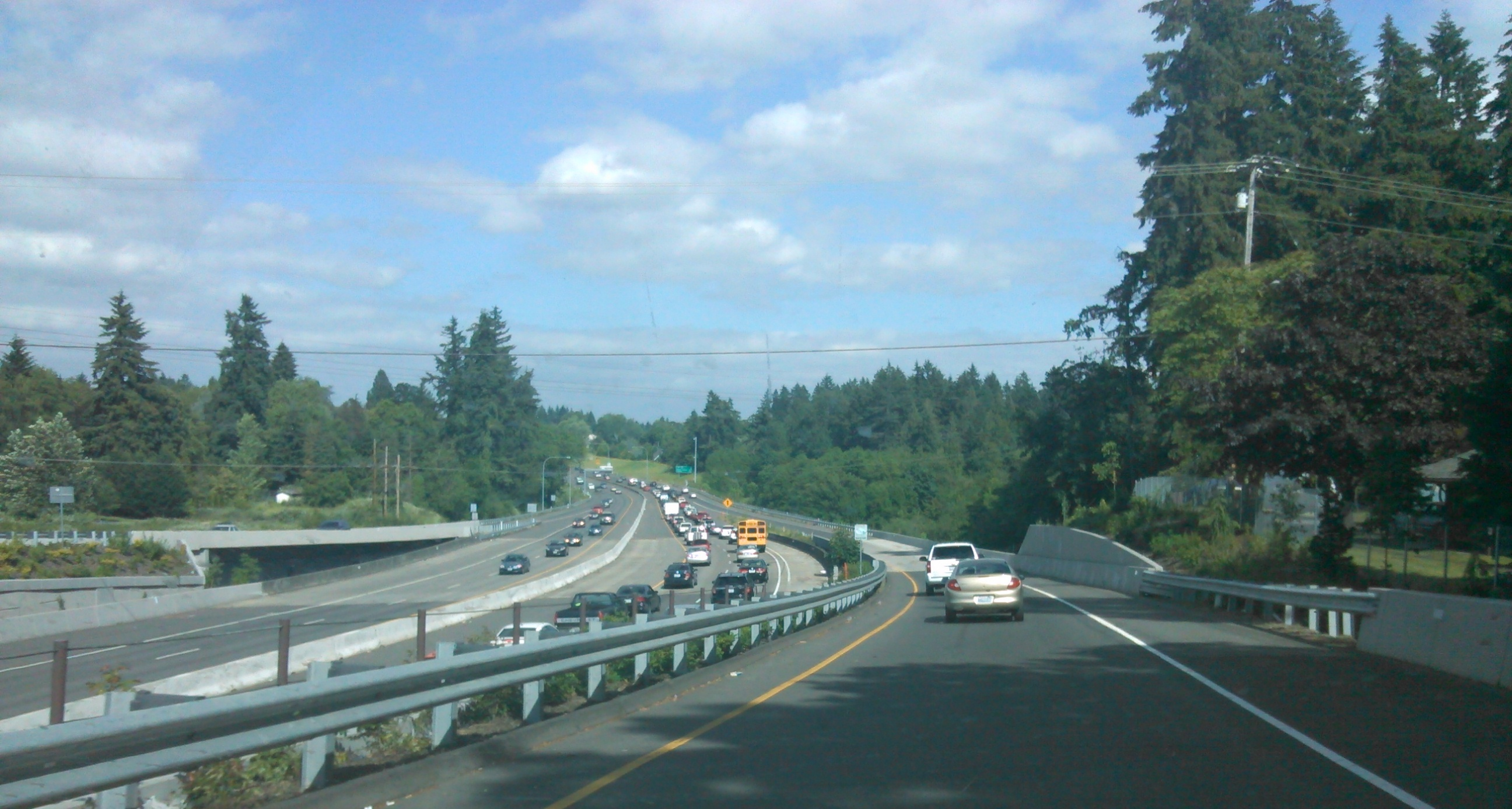 State Route 500 near the Saint Johns Boulevard interchange.